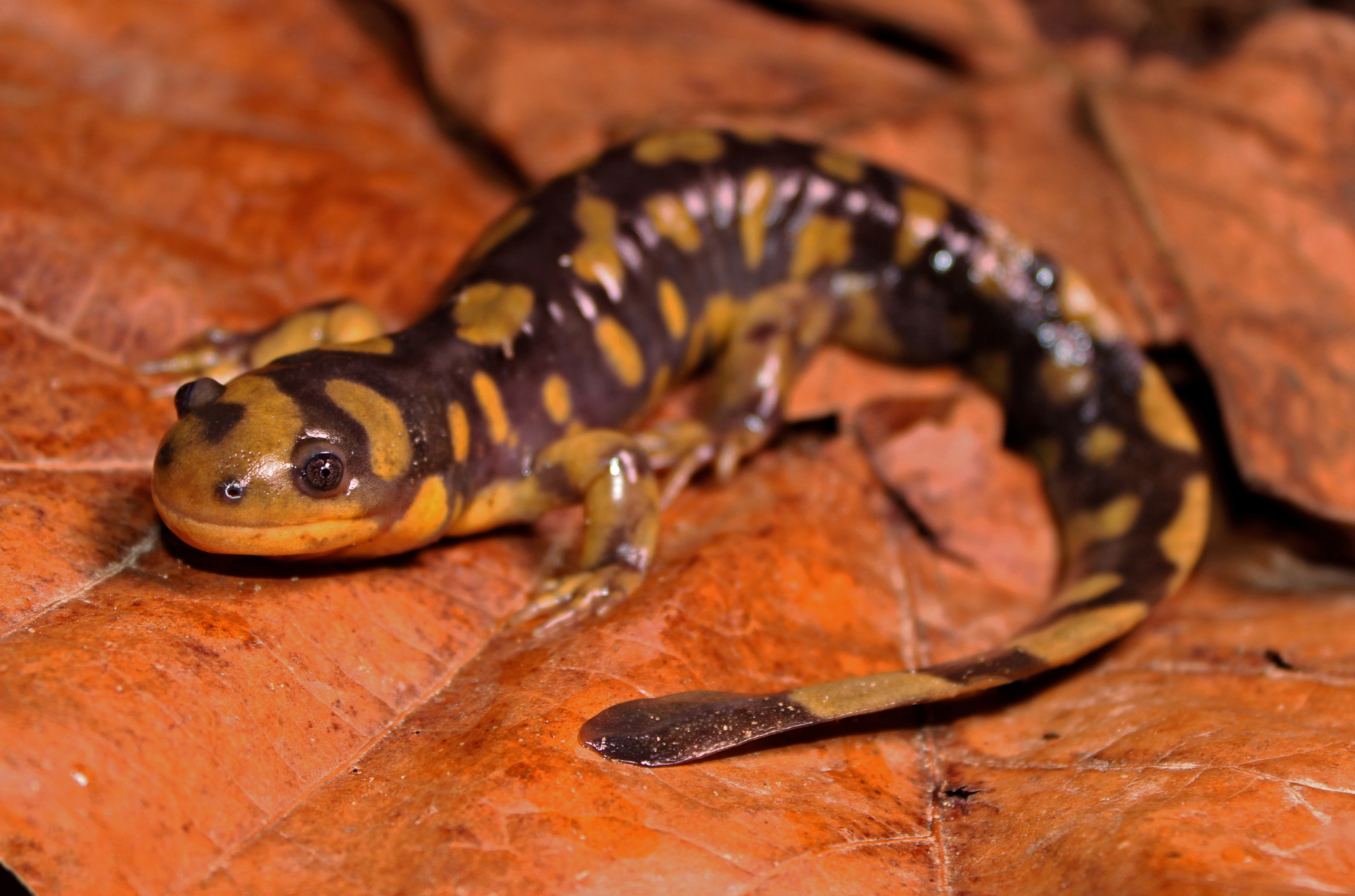 Eastern tiger salamander (Ambystoma tigrinum) on 8 March 2016 in Madison County, Illinois. High of 67 °F (19 °C).